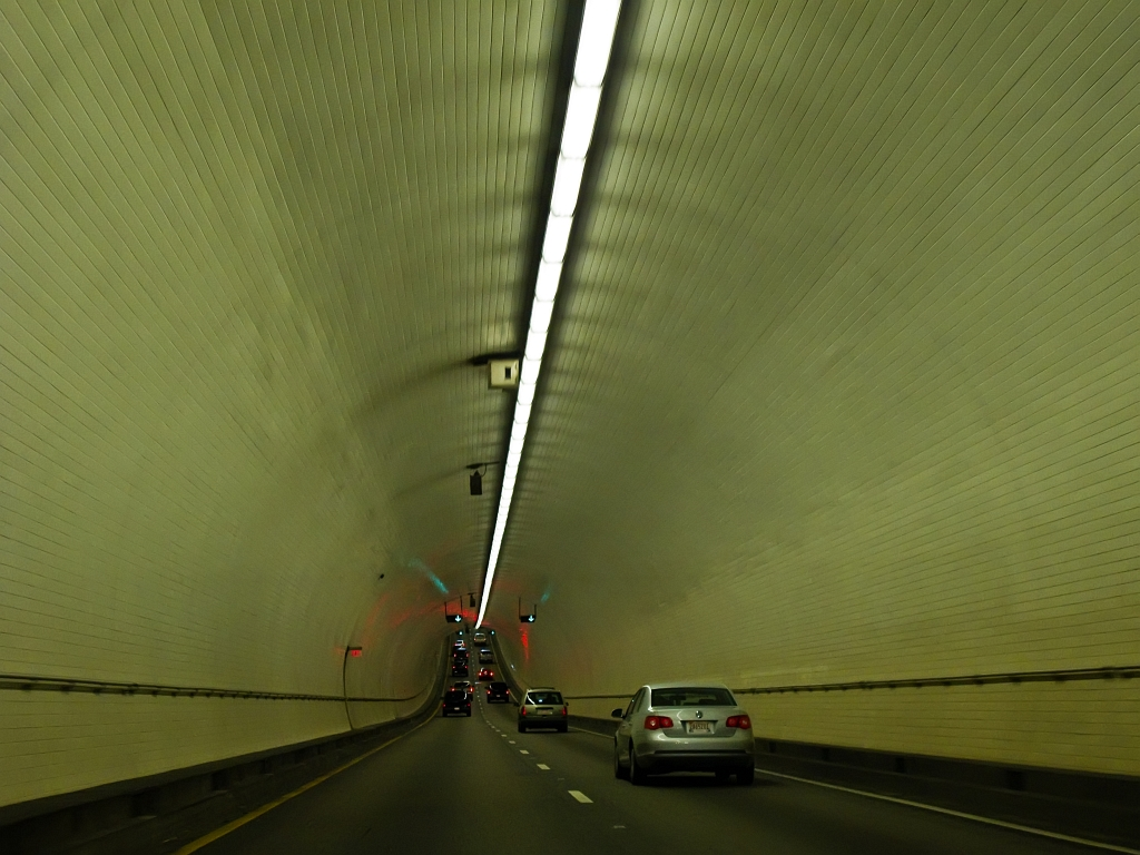 Interior of the George Wallace Tunnel in Mobile, Alabama. Original description: george wallace tunnel